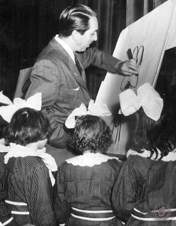 Walt Disney drawing Goofy for a group of girls, during his visit to Argentina.